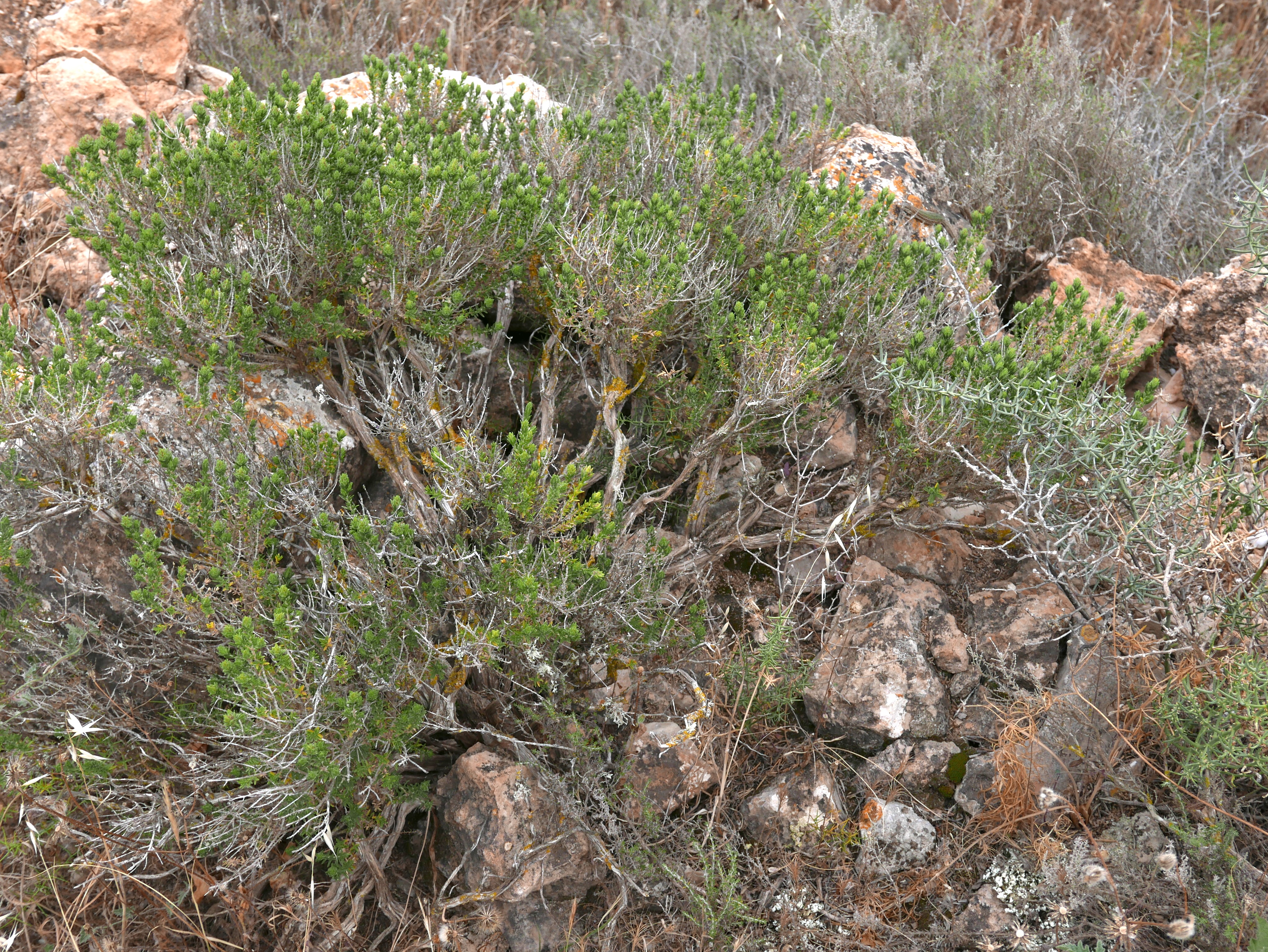 Thymus vulgaris subsp. aestivus